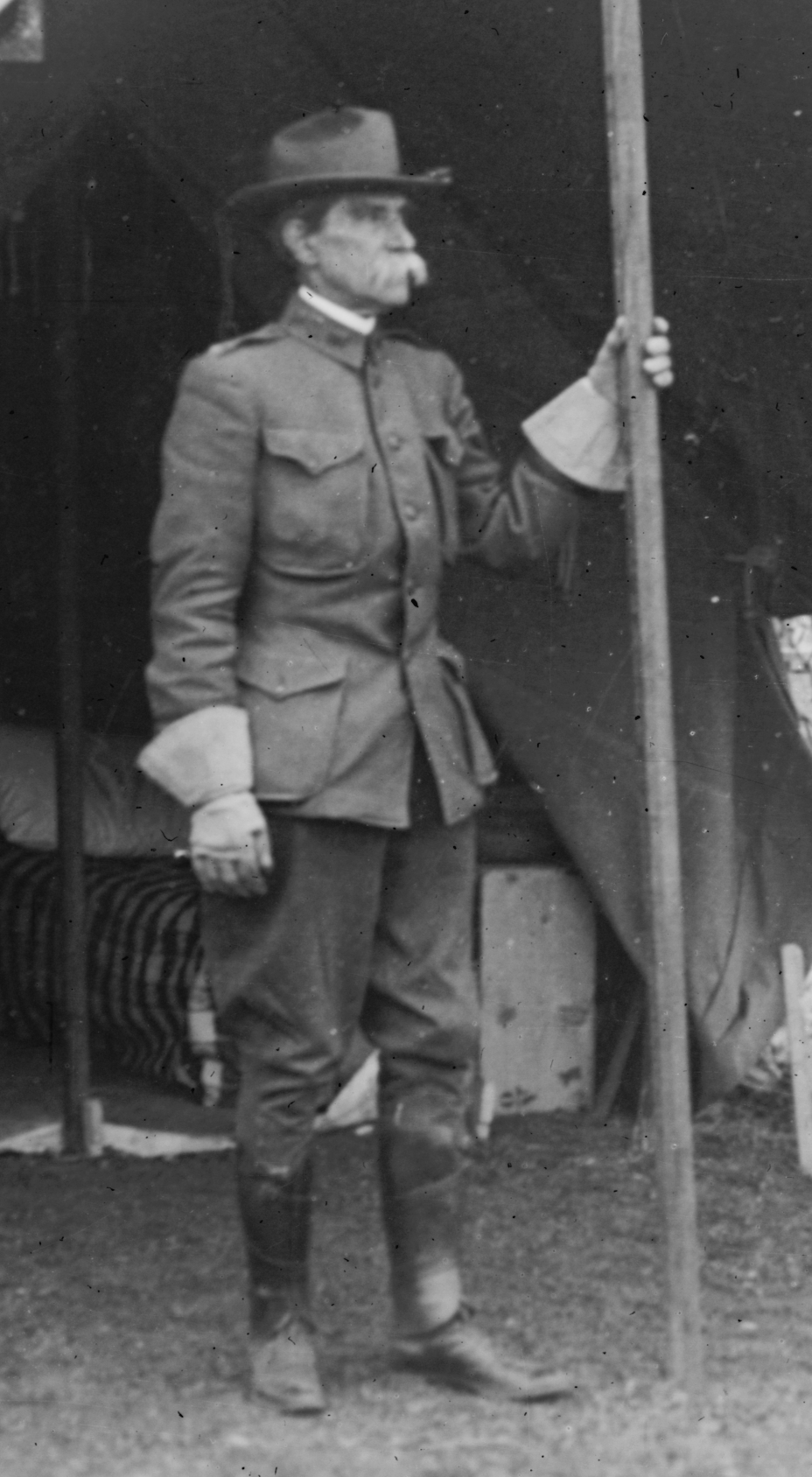 Colonel Edgar Zell Steever II in 1912 as commander of the El Paso district